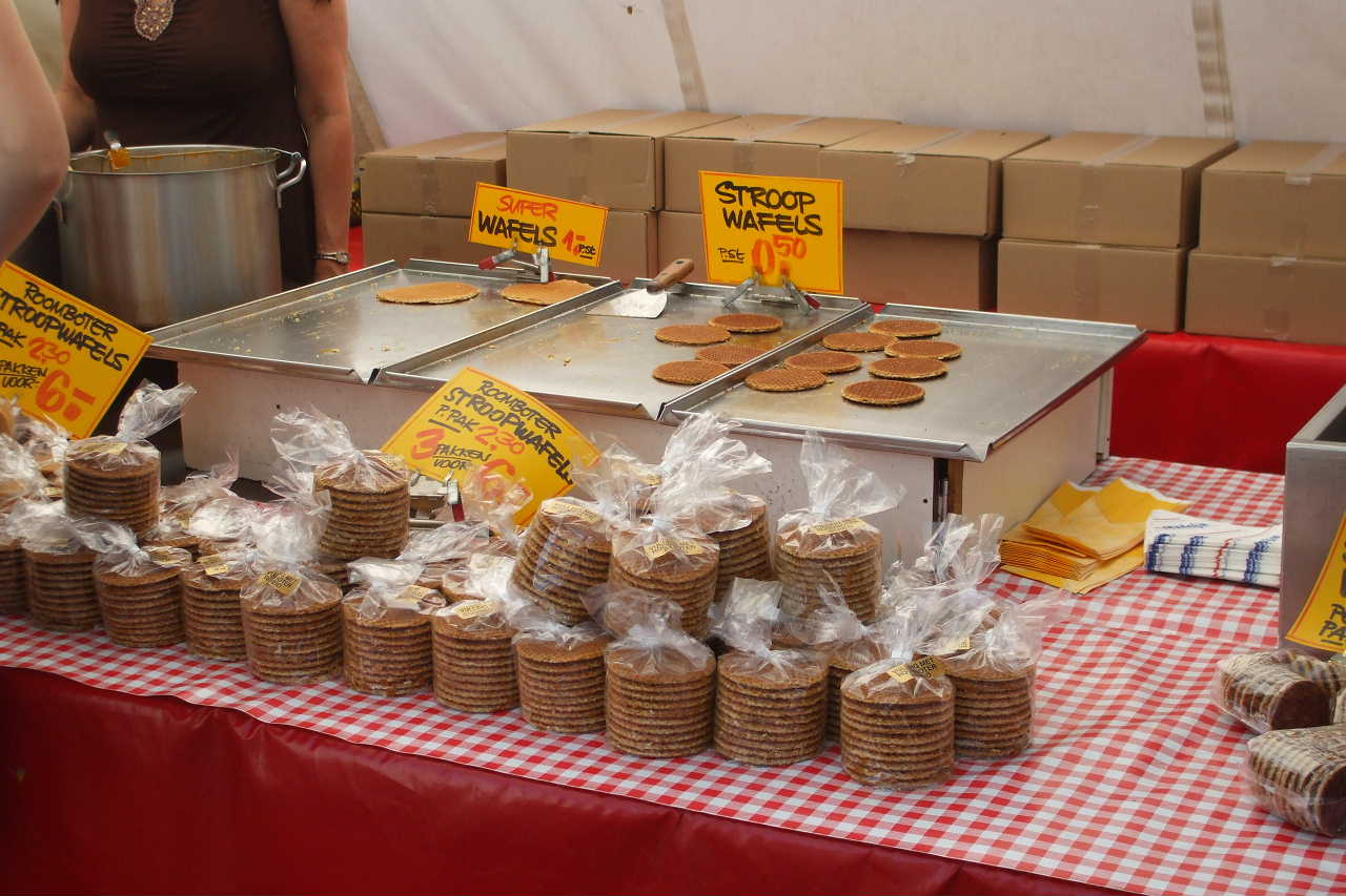 Stroopwafels - Dutch cookies on the market place in Middelburg (NL)